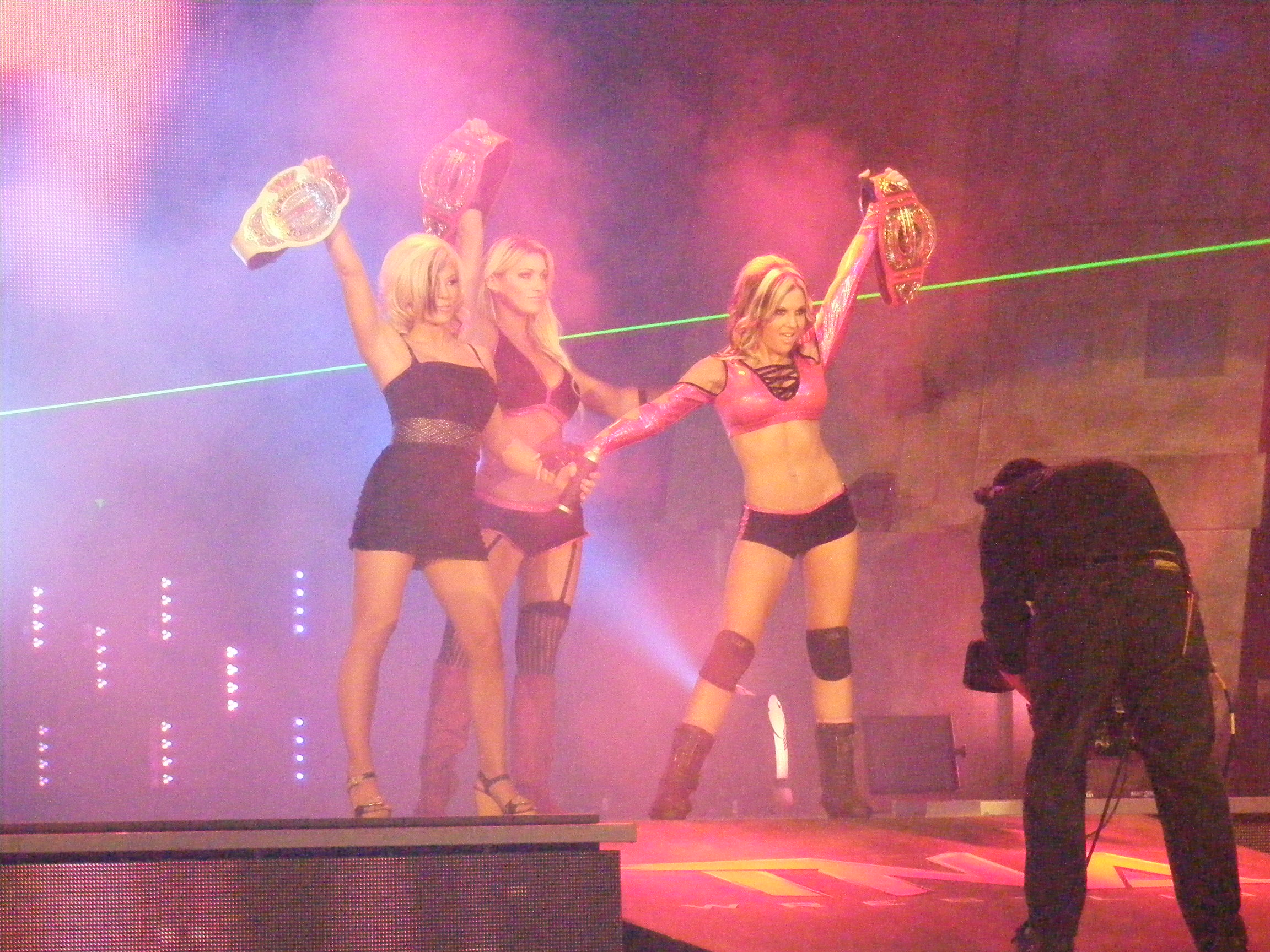 The Beautiful People make their entrance for a Knockouts Tag Team Title Defense during a TNA Impact show. From left to right; Madison Rayne (TNA Knockouts Singles Champion), Lacey Von Erich & Velvet Sky (TNA Knockouts Tag Team Champions)